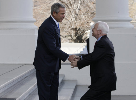 Republican presidential nominee Senator John McCain is greeted by President George W. Bush on the North Portico at the White House, Wednesday, March 5, 2008.